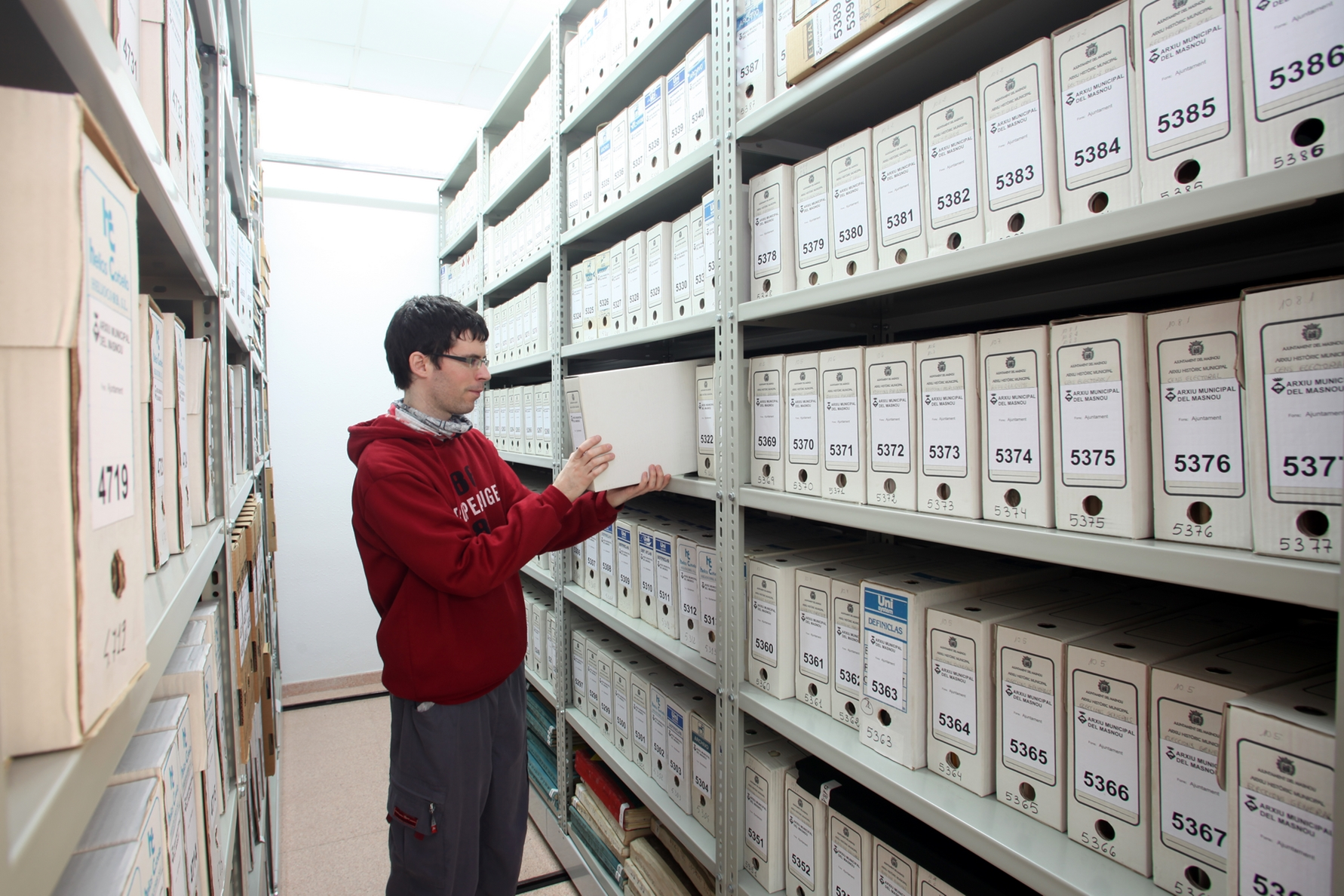 Shelves of compact cabinets of the Municipal Archives of El Masnou (Spain) and archivist taking a box file.